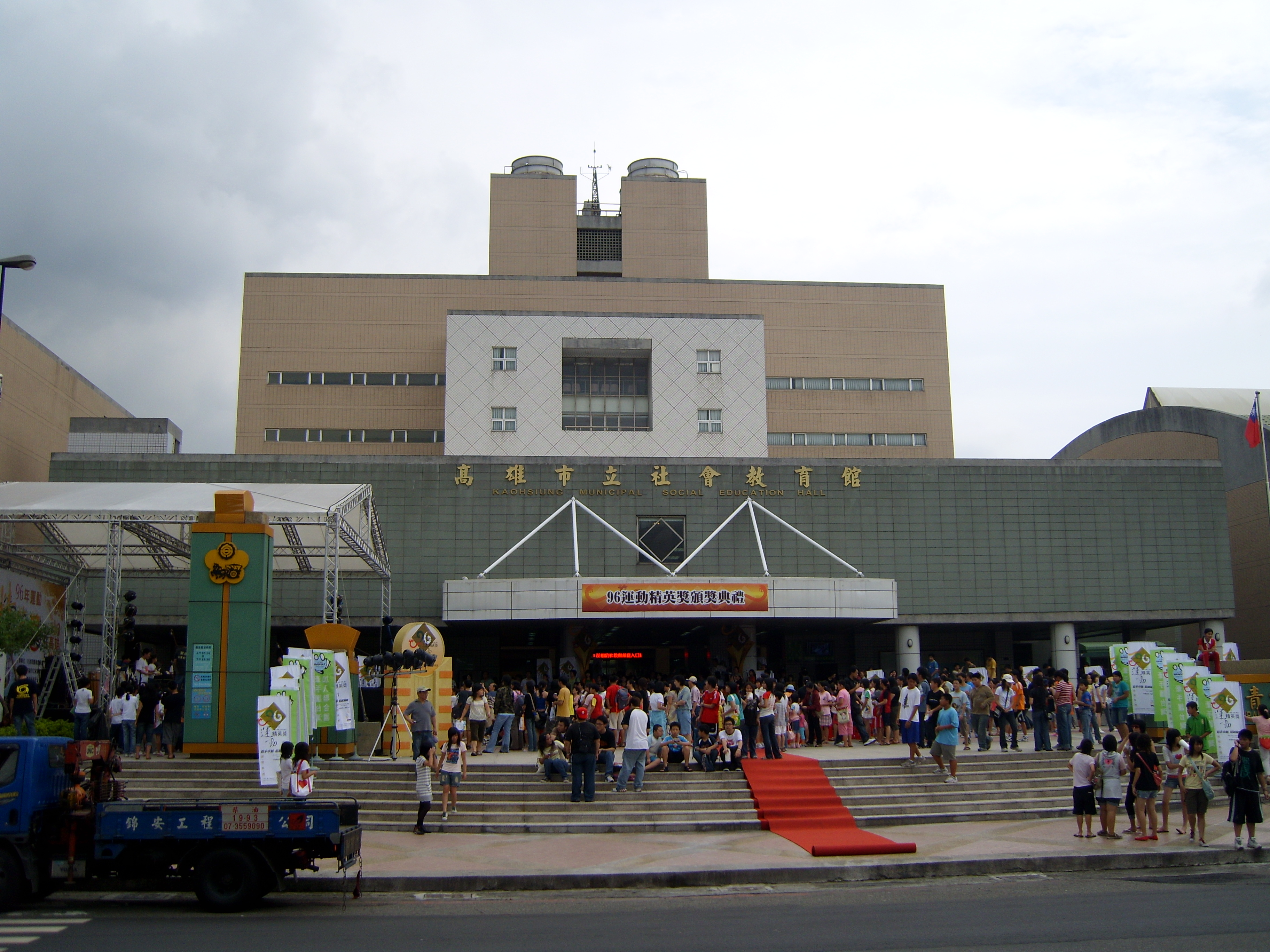 2007 Taiwan Sports Elite Awards was held at Kaohsiung Municipal Social Education Hall.